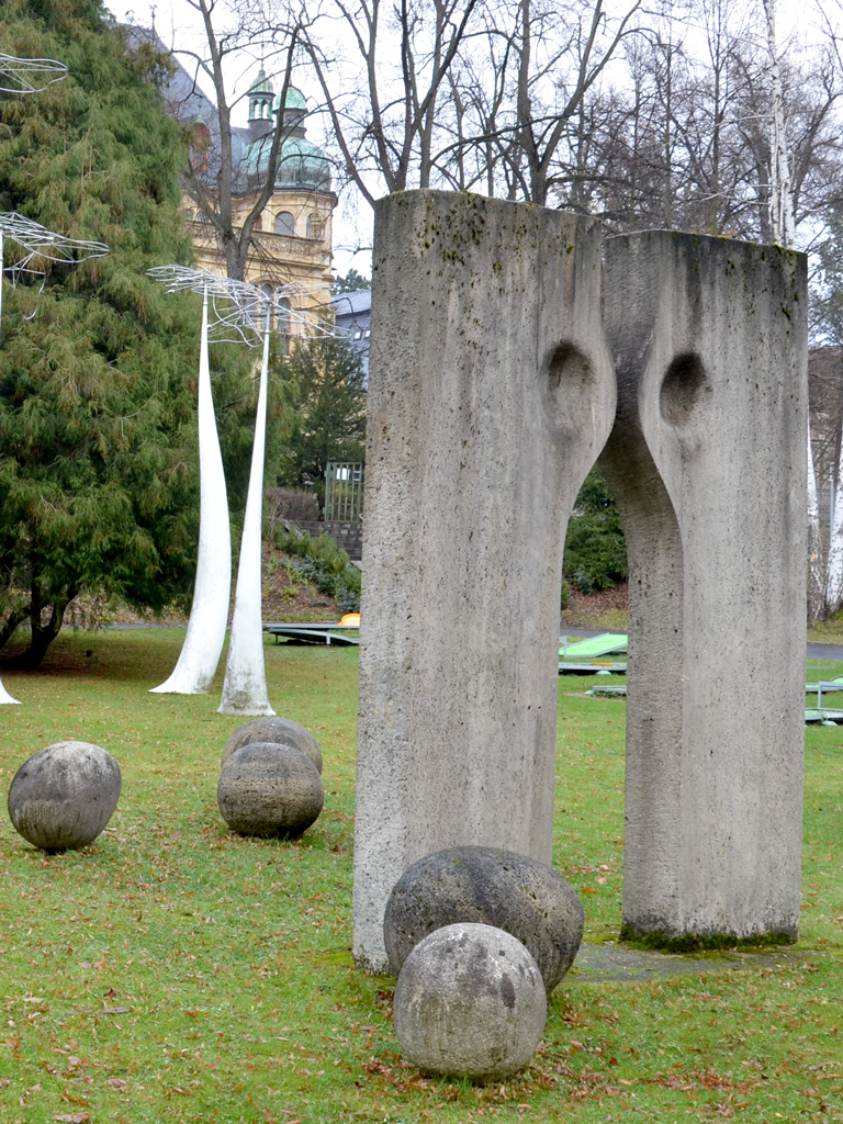 Eva Kmentová, Gate of Dreams(1966), Liberec